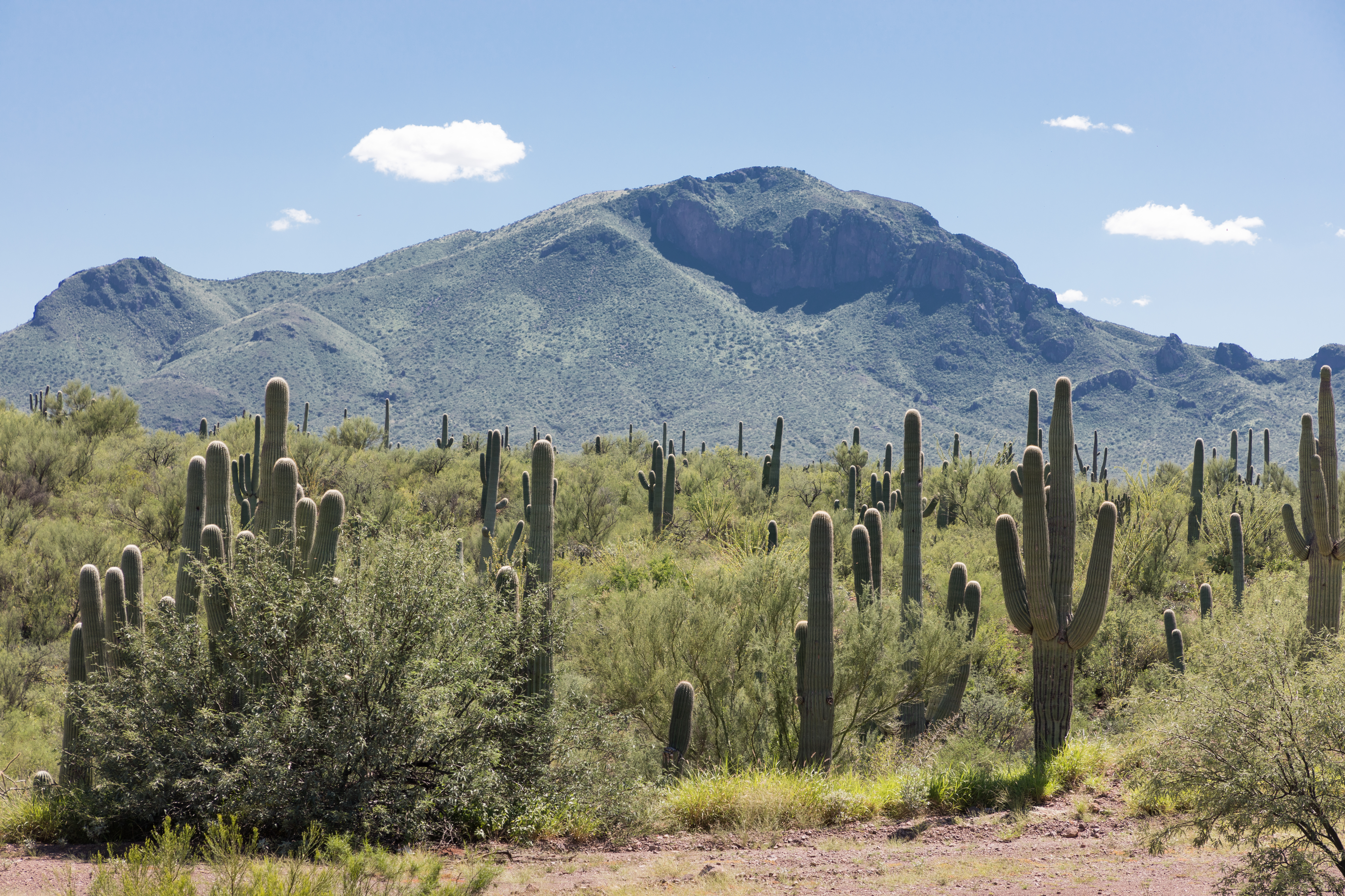 Saguaro forest in Sonora.